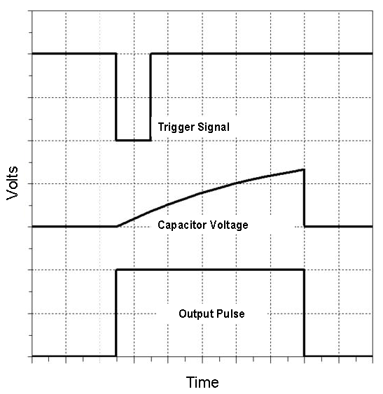 NE555 in a monostable configuration waveforms